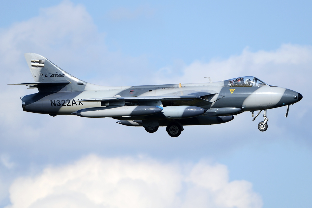 N322AX, ex Swiss Air Force J-4087